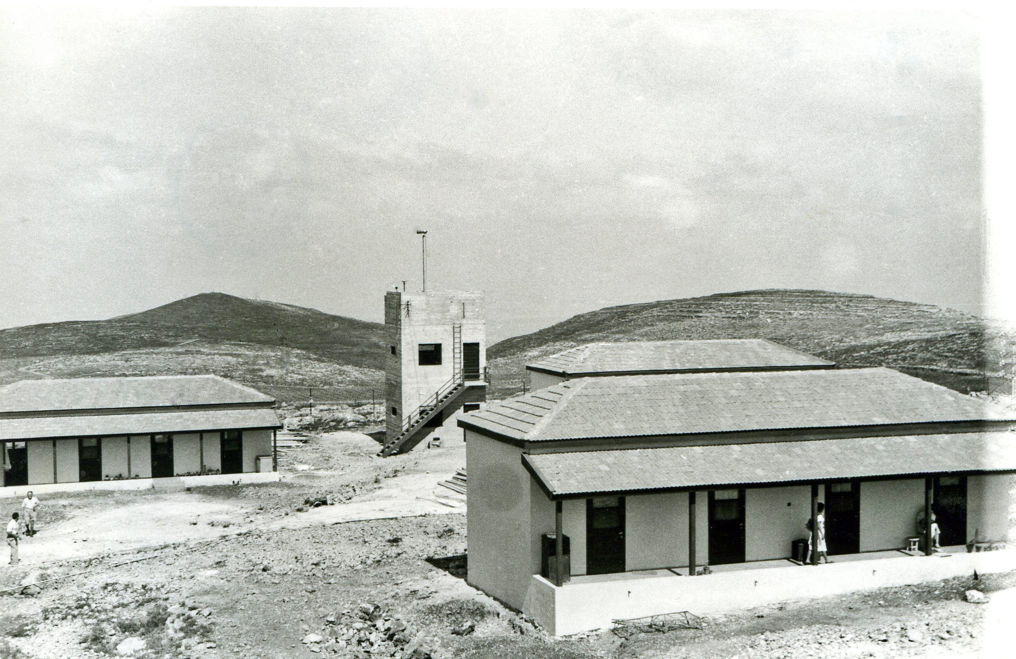 Ma'ale Hachamisha 1939